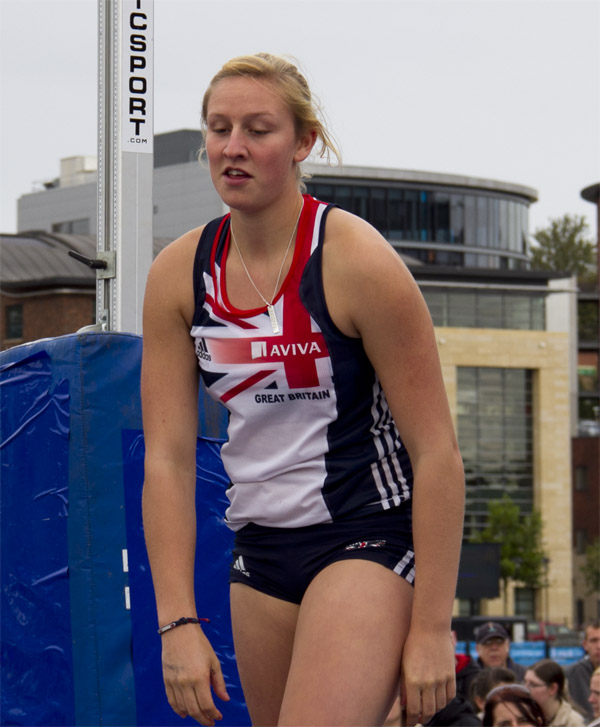 Holly Bleasdale at Great North Games 2011 in Gateshead, UK